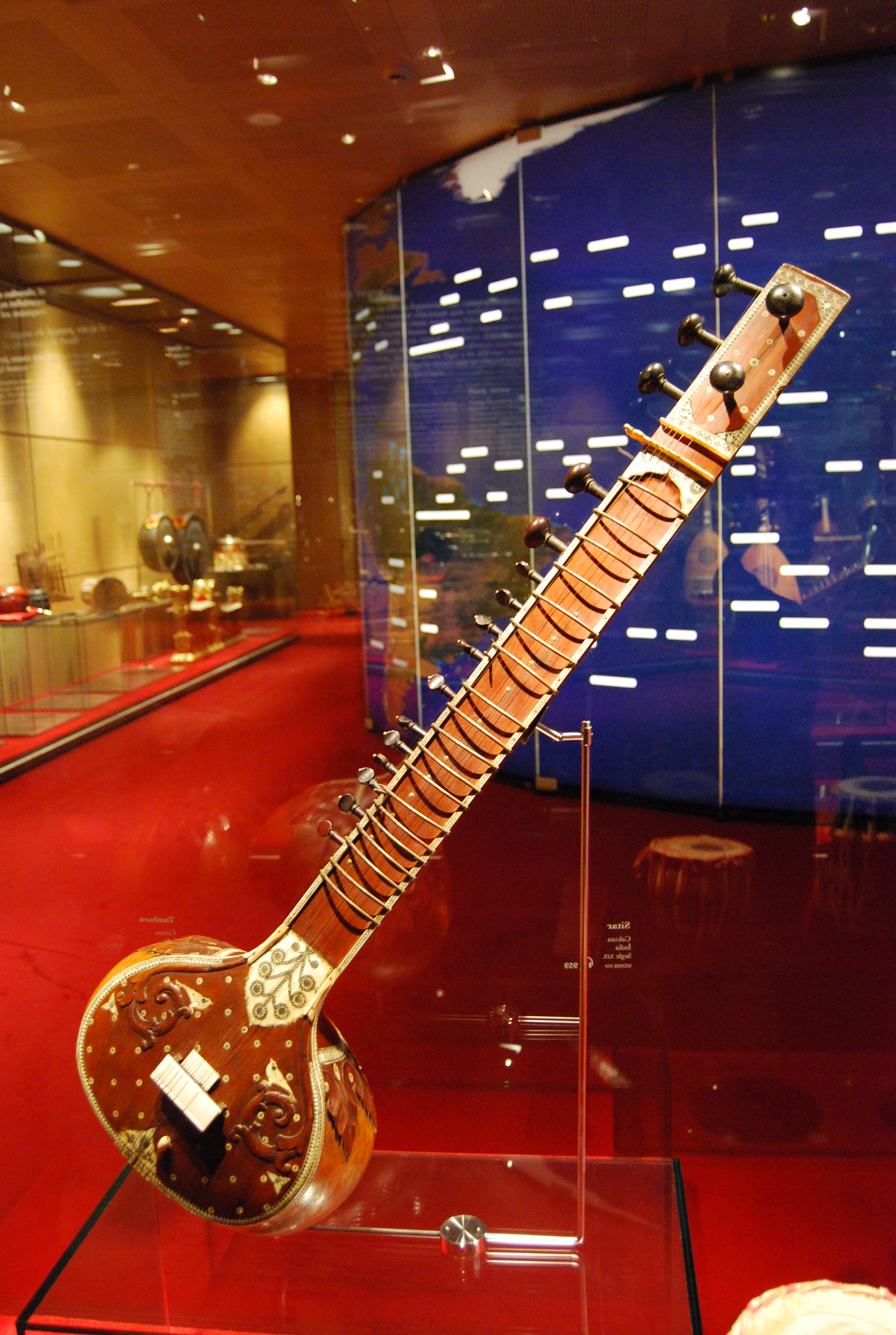 Sitar (India)